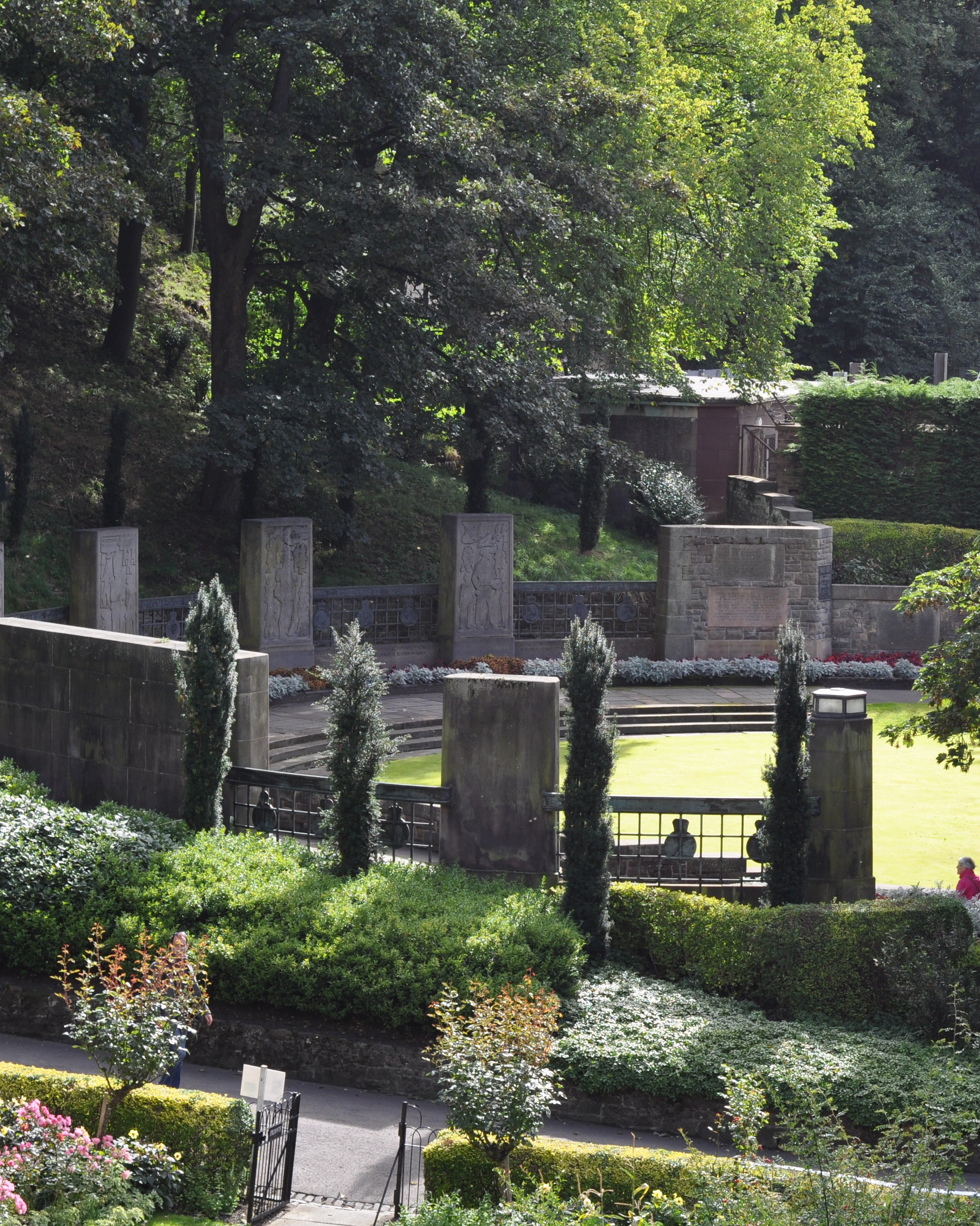 Edinburgh, Princes Street Gardens, Royal Scots Monument